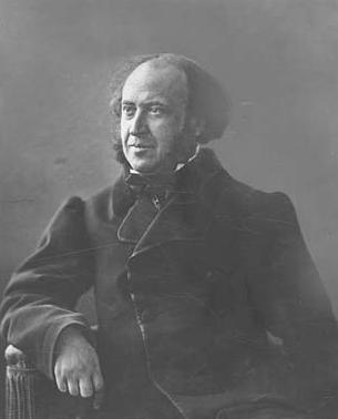 The former French Prime minister Jules Simon